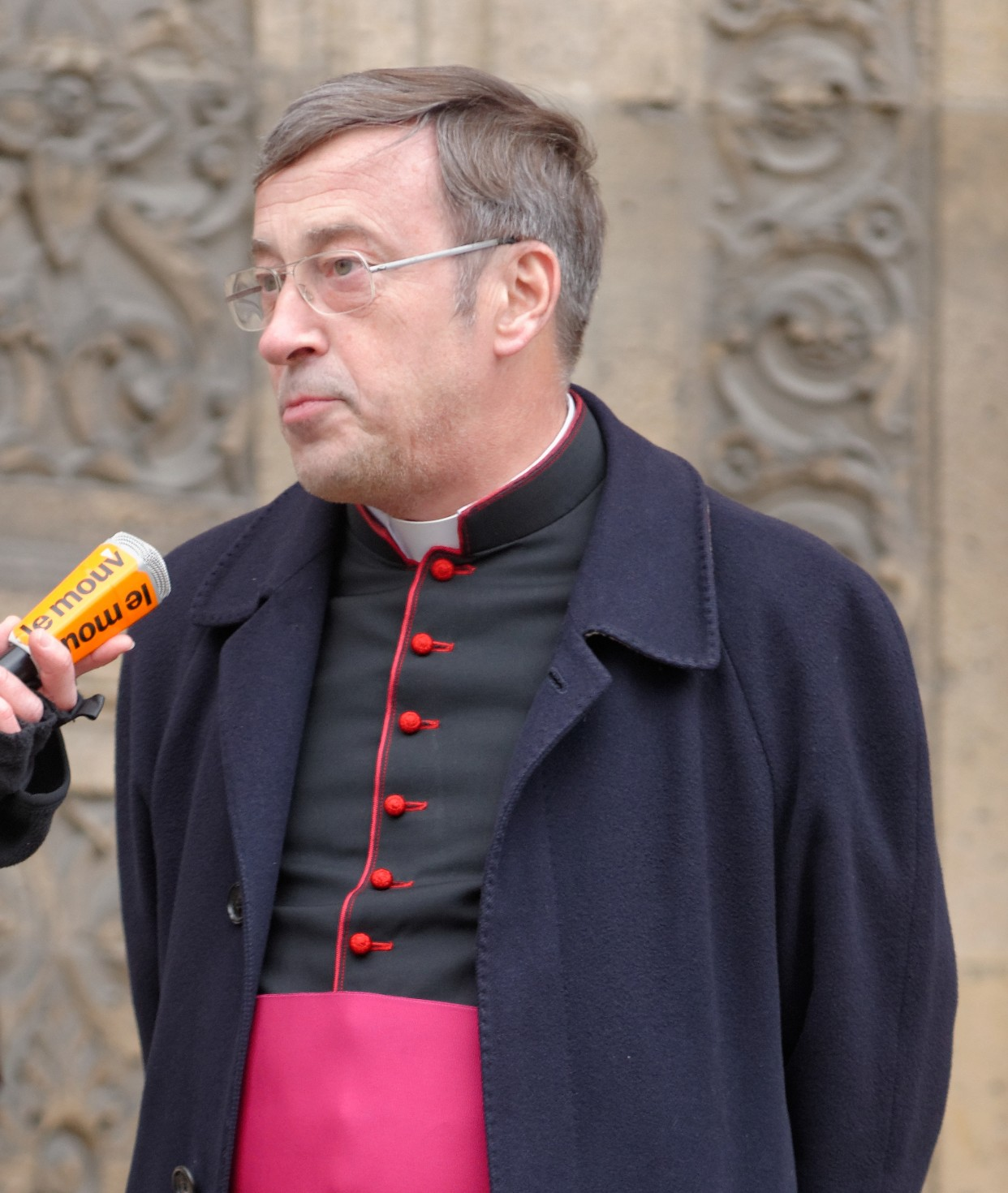 Mgr Patrick Chauvet interviewed by the television on the edges of the demonstration against same-sex marriage in Paris on 13 January 2013 (“Manif pour tous”): the procession coming from Place d'Italie.